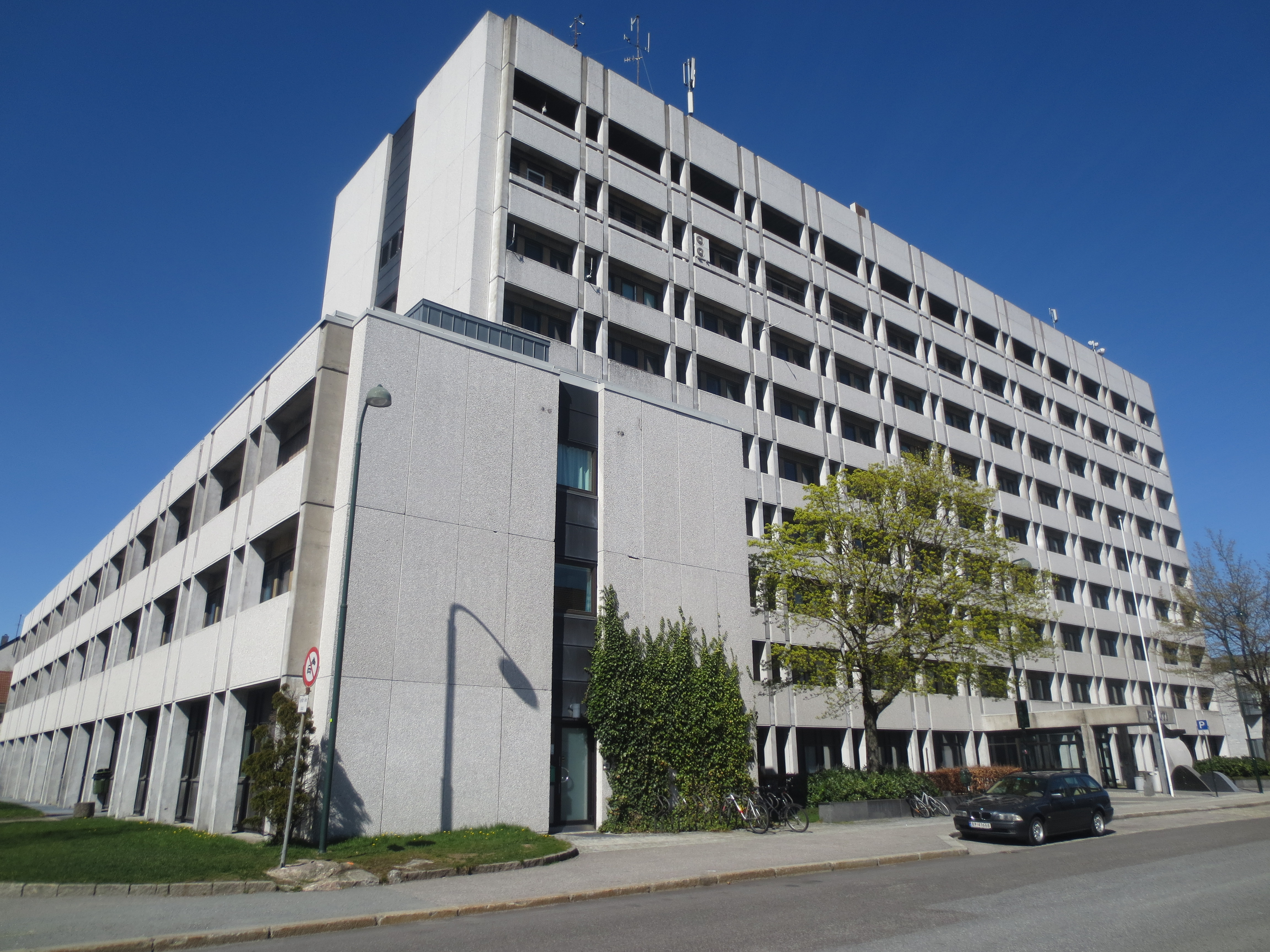 Kristiansand Court House and Police Station, Vest-Agder county, Norway